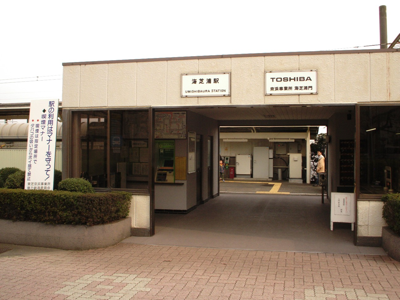 Tsurumi Station viewed from outside (i.e. from Toshiba property)